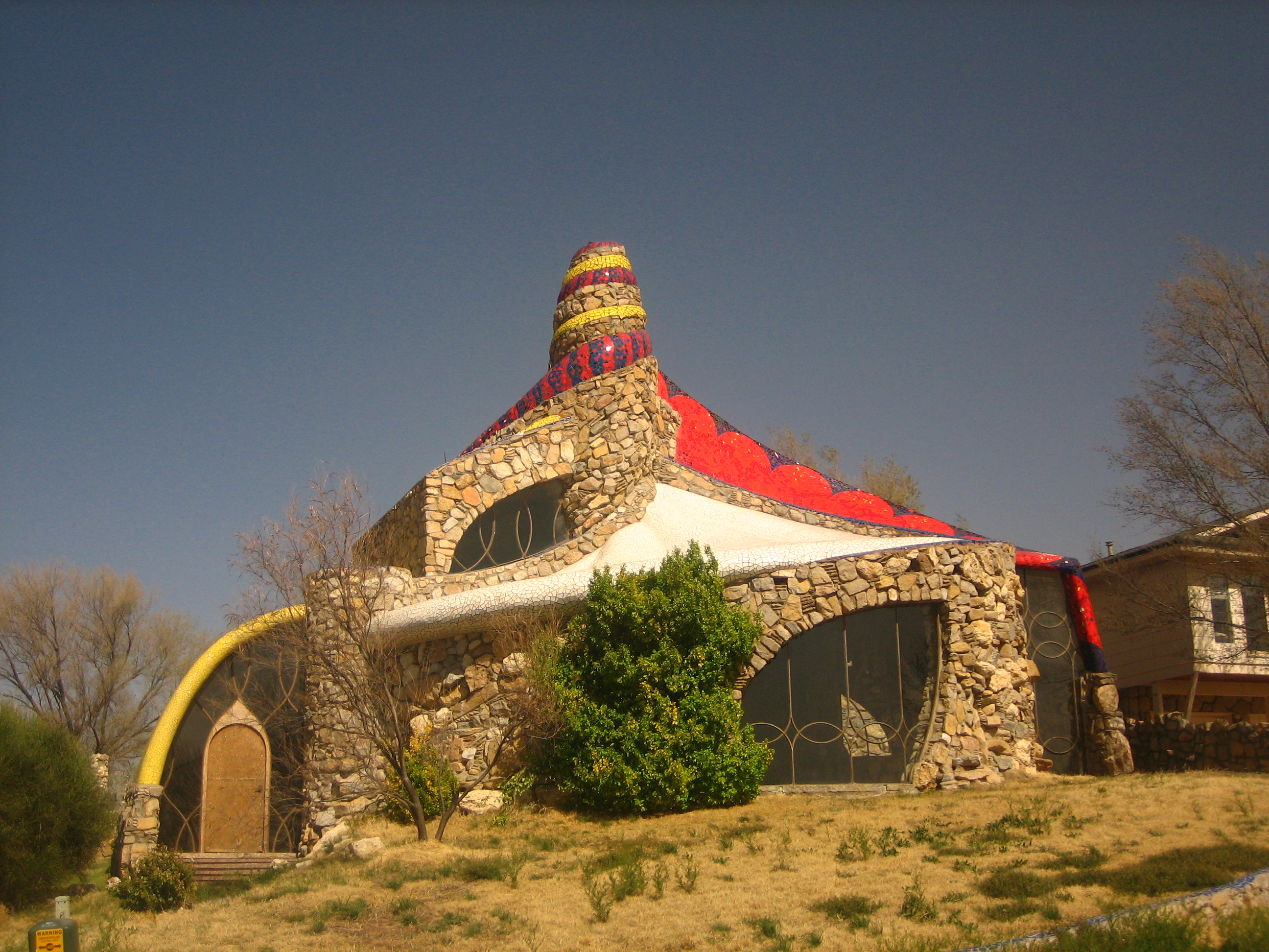 Lawson Castle in Ransom Canyon, TX